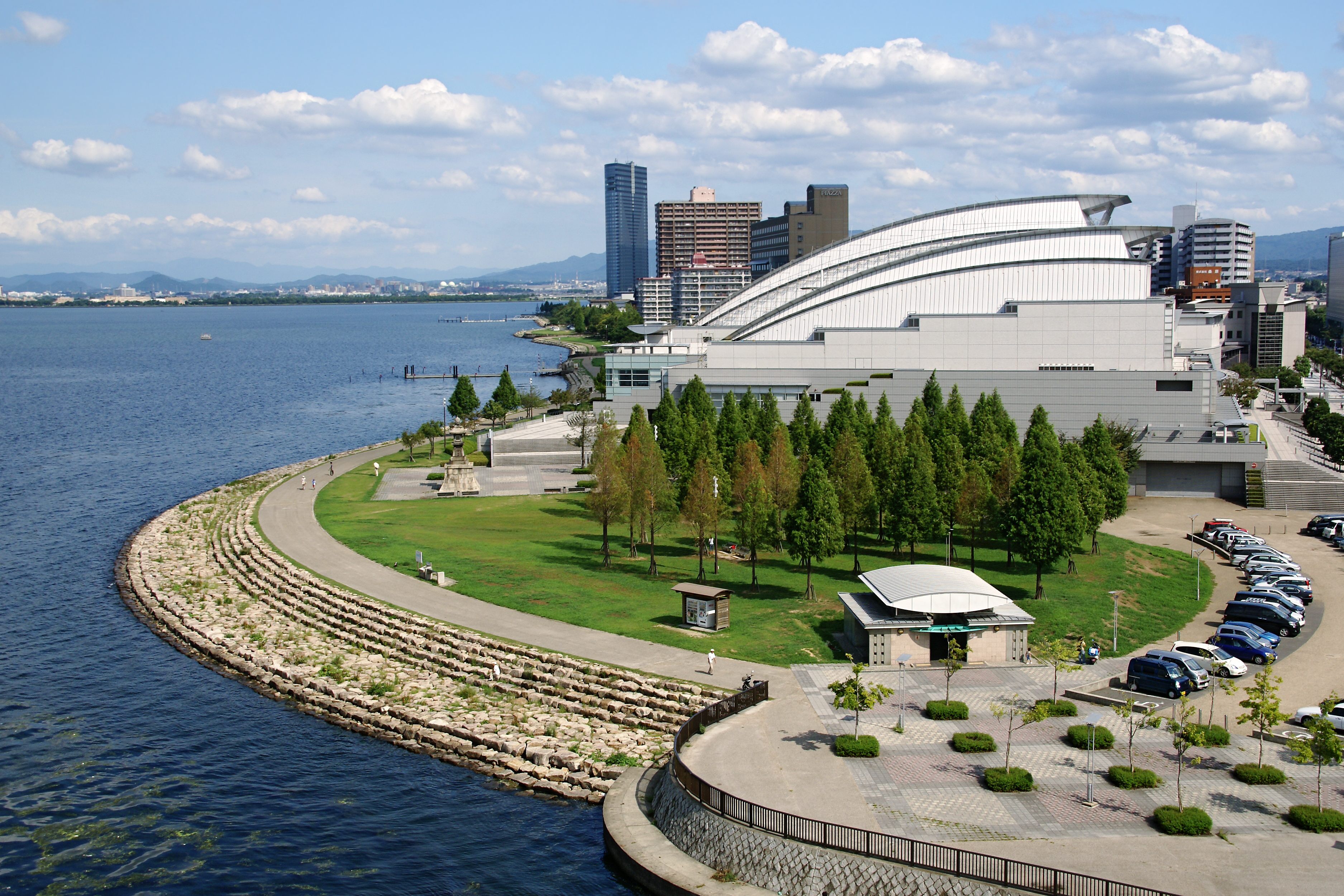 Biwako Hall Center for The Perfoming Arts, Shiga in Otsu, Shiga prefecture, Japan